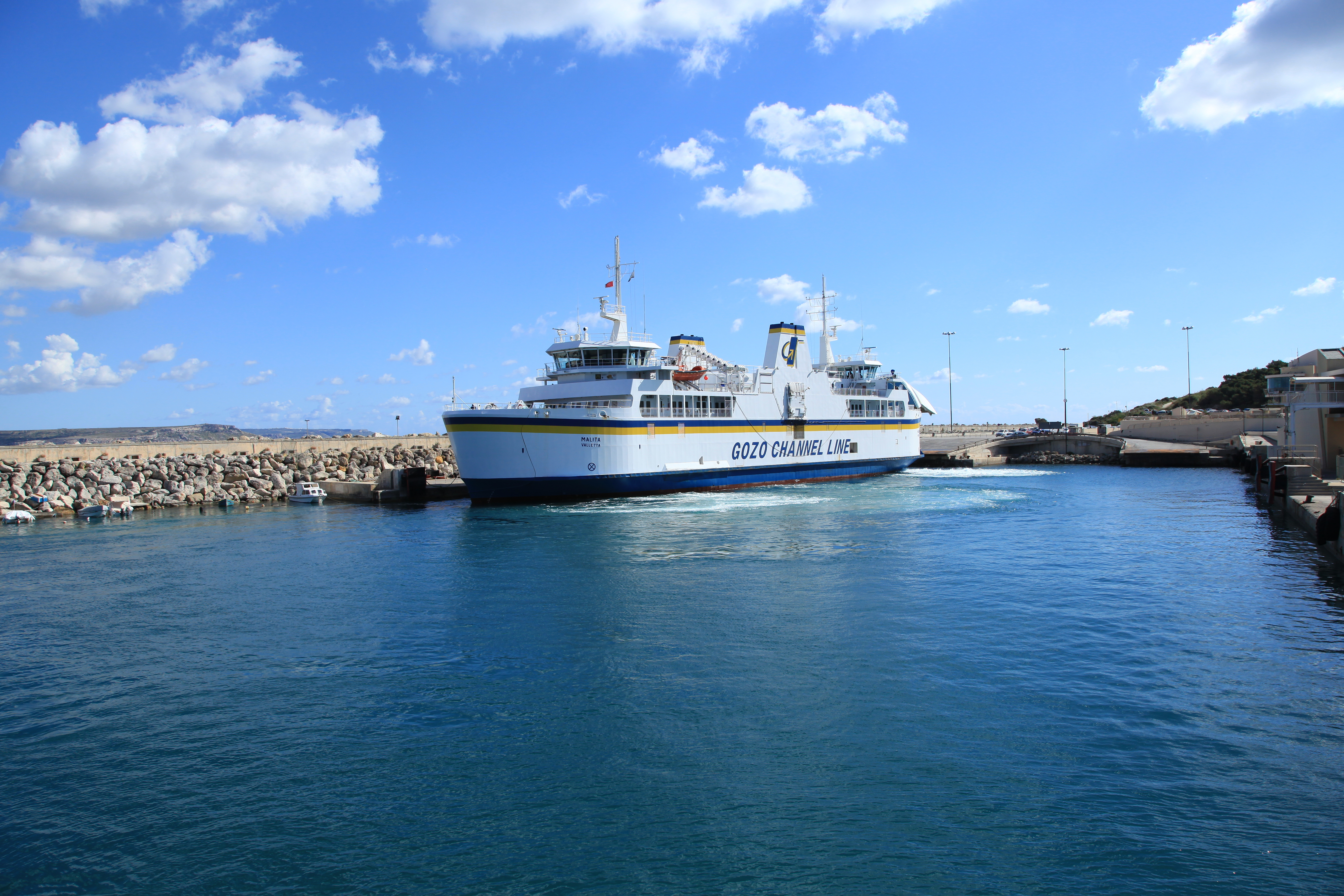 View from the Keppel (IMO 8434415) to the ferry Malita (IMO 9176321), Mġarr Harbour in Għajnsielem, Malta